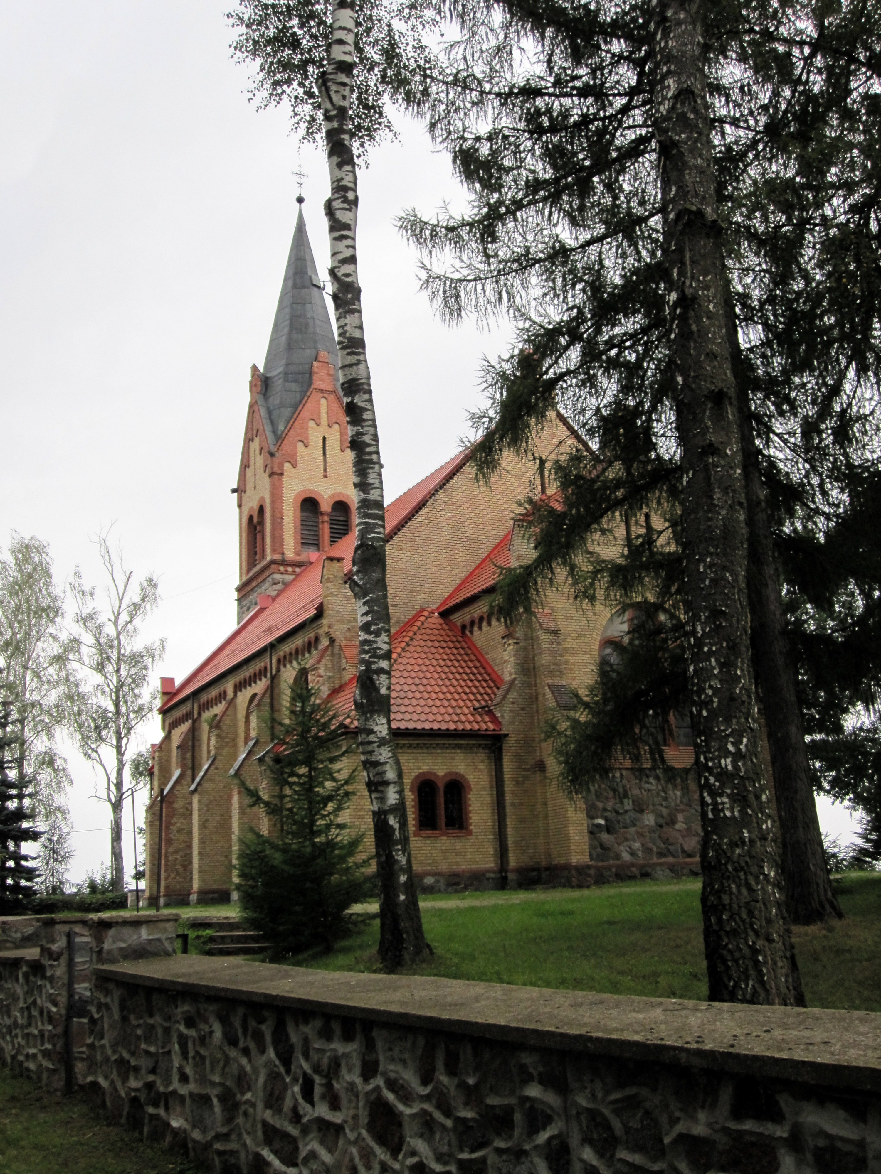 Church of Our Lady of the Rosary in Bajtkowo